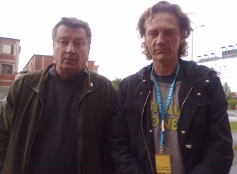 Aki Kaurismäki and Ville Virtanen at Midnight Sun Film Festival 2011 in Sodankylä, Finland.